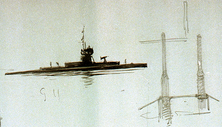 Studies of HMS 'Tartar' and the submarine 'G11', with other sketches A sheet of studies inscribed 'G.11', 'TARTAR', 'photograph 6.30 Wednesday', by the artist. The main unfinished drawing is of the 'Tribal' (F) class destroyer 'Tartar' in 1914, with her class letter painted on the hull. She was built by Thornycroft at Woolston, launched on 25 June 1907, completed in April 1908 and broken up at Hayle from May 1921. The submarine 'G11', shown above, was built by Vickers at Barrow, launched on 22 February 1916 and completed on 13 May 1916. She was wrecked off Howick, near Craster, on 22 November 1918. This is a fair depiction of her. The sketch on the right is of a pair of periscope standards above the conning tower of a submarine. That on the left shows three men in a rowing boat.